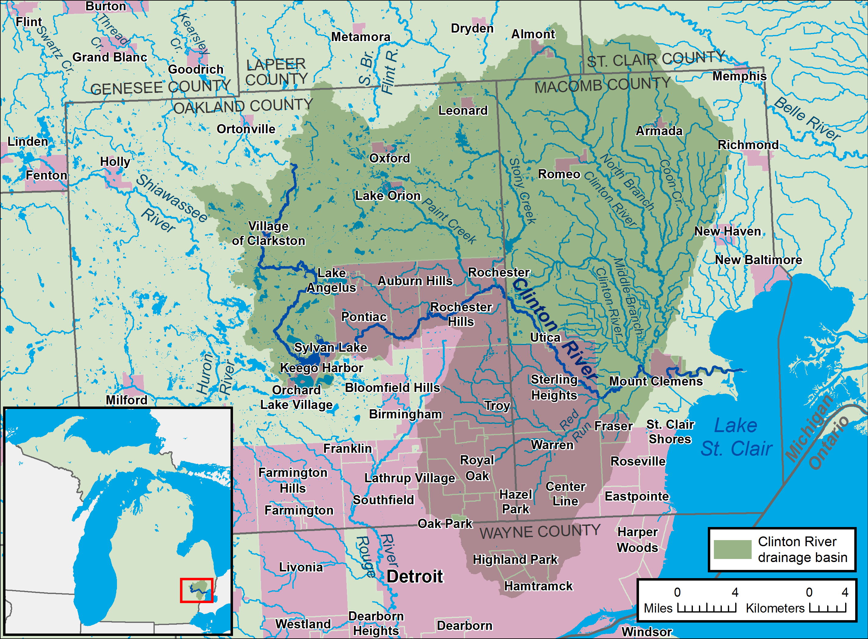 A map of the Clinton River and its watershed (USGS HUC-8 code 04090003) in metropolitan Detroit, Michigan.